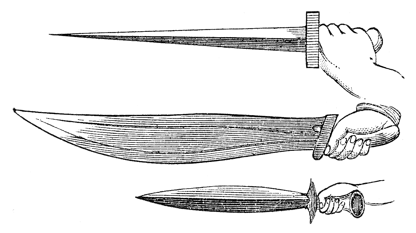 Illustration from Illustrerad verldshistoria utgifven av E. Wallis. (Volume I): "Greece swords.".